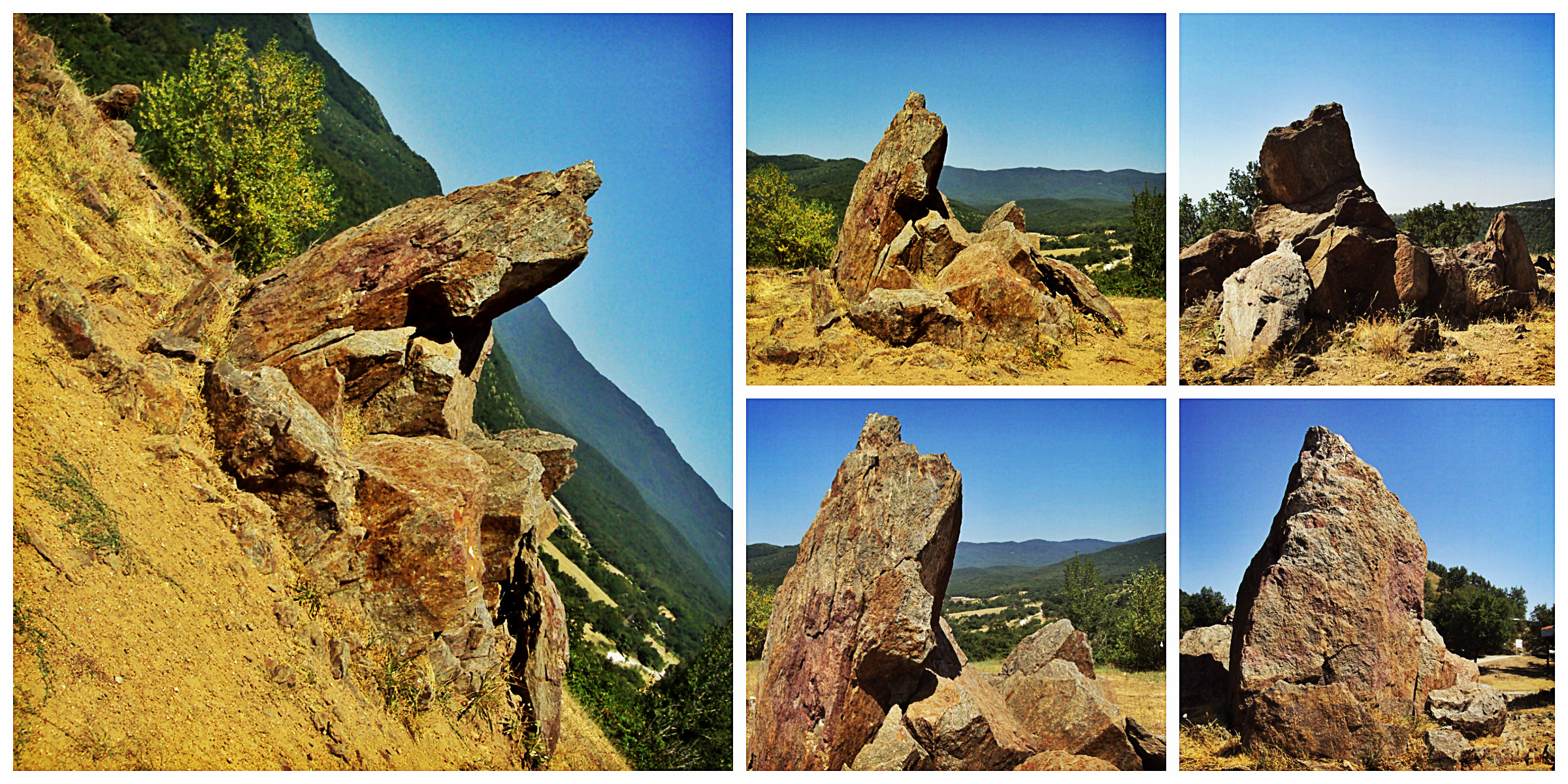 Chetiniova Mogila megalithic altair Starosel BG